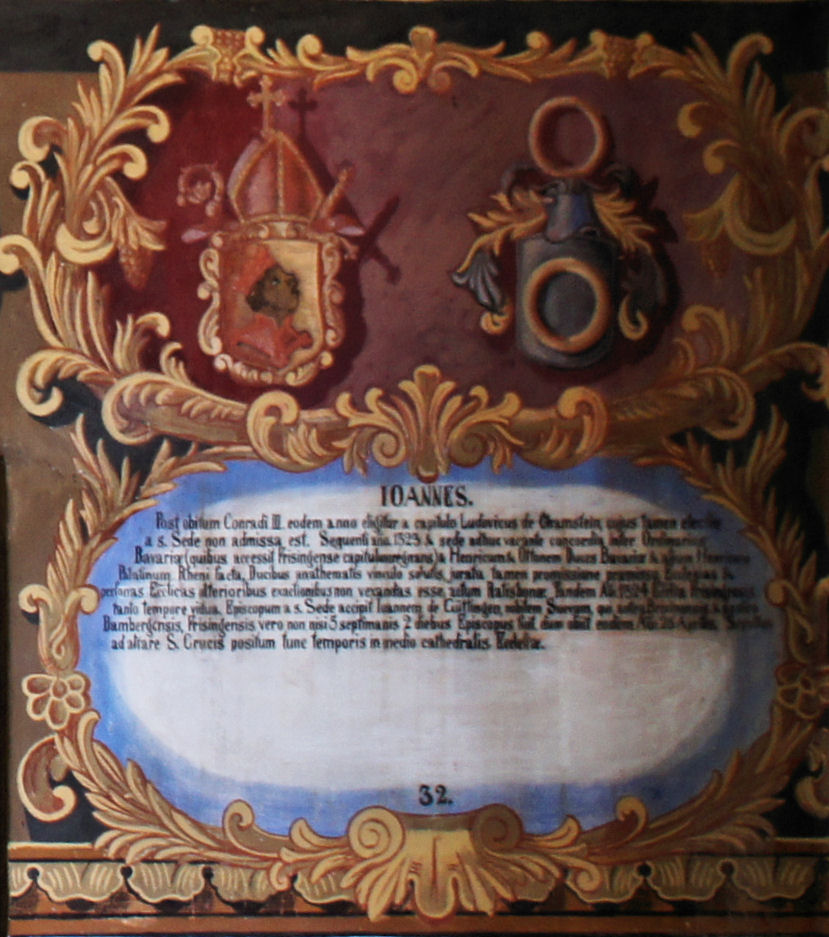 Wappentafel von Johannes I. Wulfing, Fürstbischof von Freising, im Fürstengang zwischen Fürstbischöflicher Residenz und Freisinger Dom. Links das geistliche, rechts das persönliche Wappen, darunter ein lateinischer Text mit kurzer Biographie.